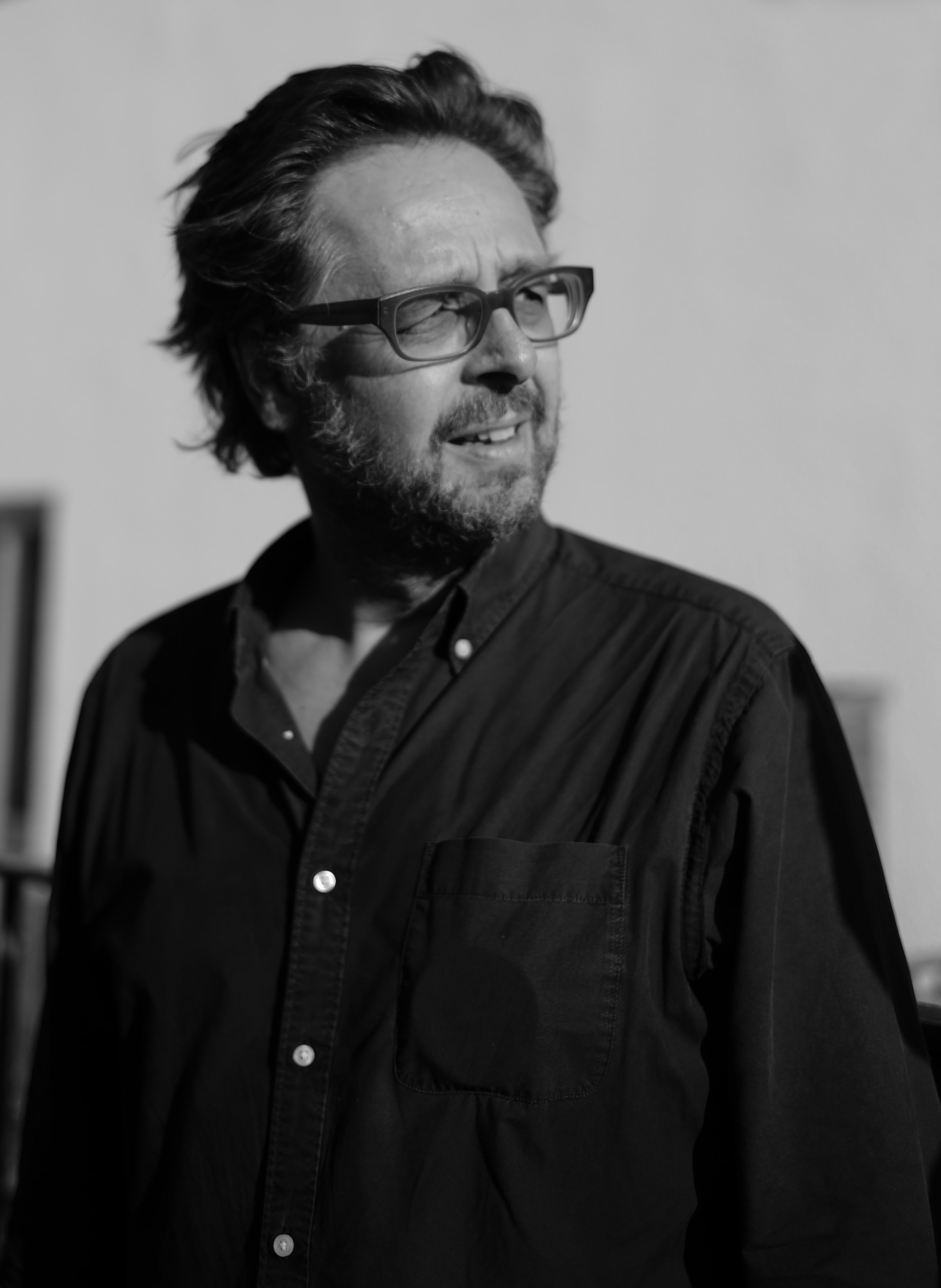 Photograph of British graphic designer Michael Johnson